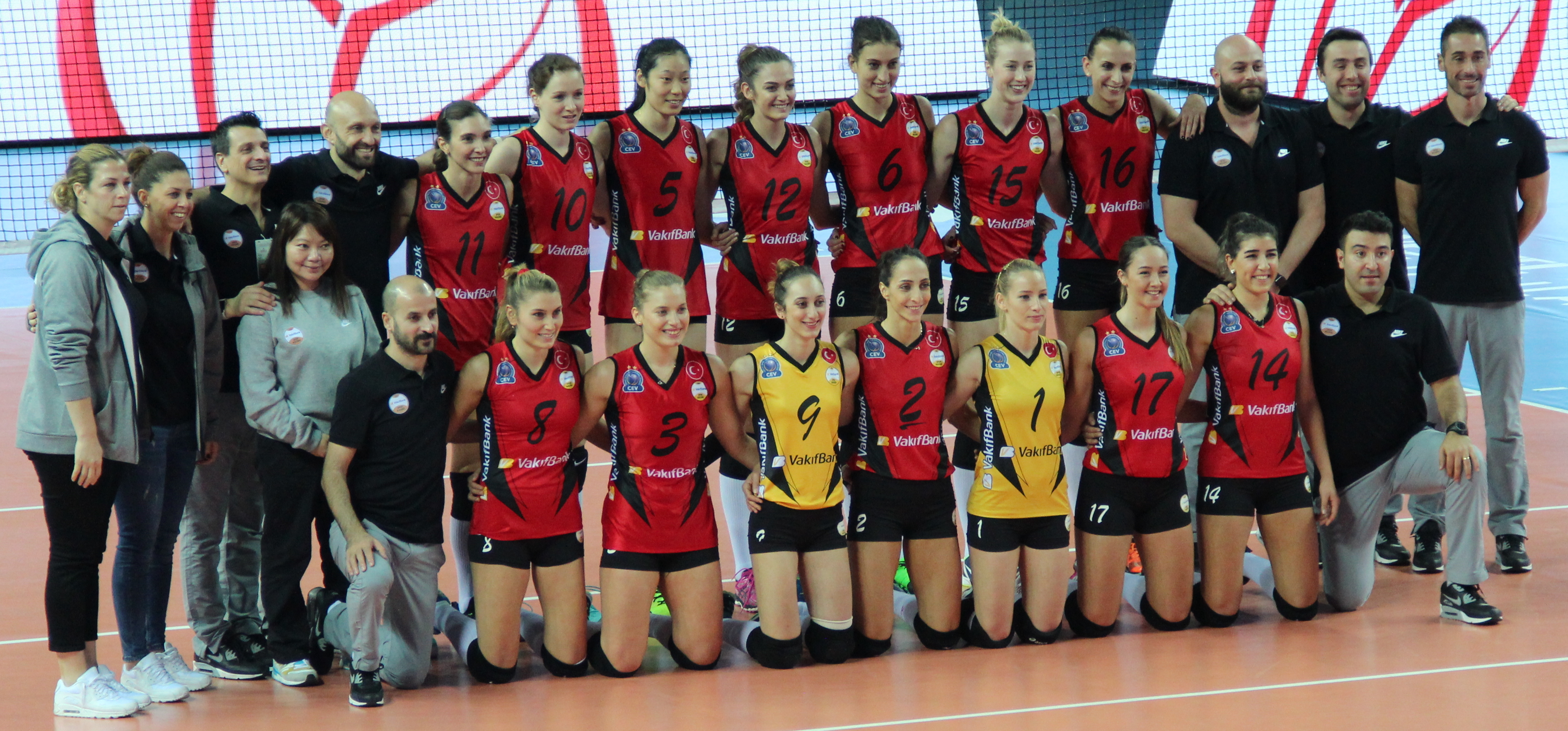 Vakıfbank Sports Club 2016-17 1. Gizem Örge 2. Gözde Kırdar Sonsırma 3. Cansu Özbay 5. Zhu Ting 6. Kübra Çalışkan 8. Ayşe Melis Gürkaynak 9. Ayça Aykaç 10. Lonneke Slöetjes 11. Naz Aydemir 12. Özgenur Yurtdagülen 14. Melis Durul 15. Kimberly Hill 16. Milena Rašić 17. Cansu Çetin Giovanni Guidetti Jamie Morrison Dehri Can Dehrioğlu